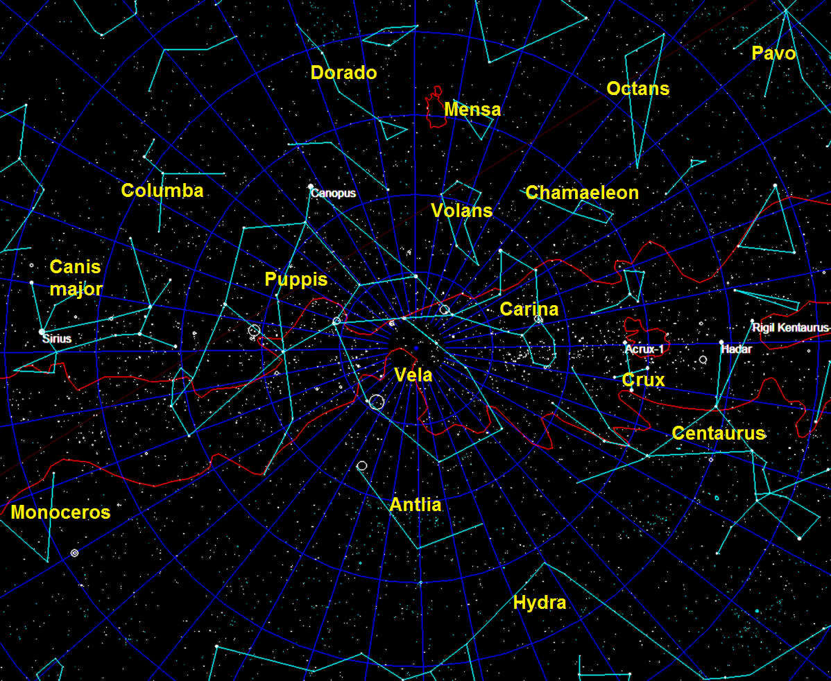 Southern polar sky as viewed from the planet Mars